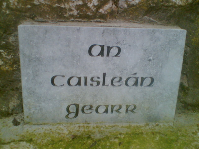 This image is at the North-East base of Castlegar Castle, Castlegar, County Galway, Ireland. The inscription is on a limestone slab, and is written in the Irish language, and means - "the short castle" in the English language.